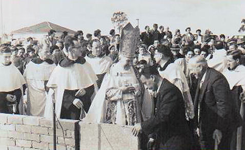 Maltese builder Frank Cefai with the Archbishop of Sydney, Normal Thomas Gilroy, placing the first stone of the complex at Our Lady Queen of Peace, Greystanes.